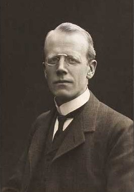 Eyvind Gunnar Olrik (1866-1934), Danish Supreme Court judge